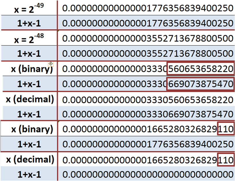 Excel error tabulation. The evaluation of 1+x-1 should be x, and the discrepancy indicates the error.